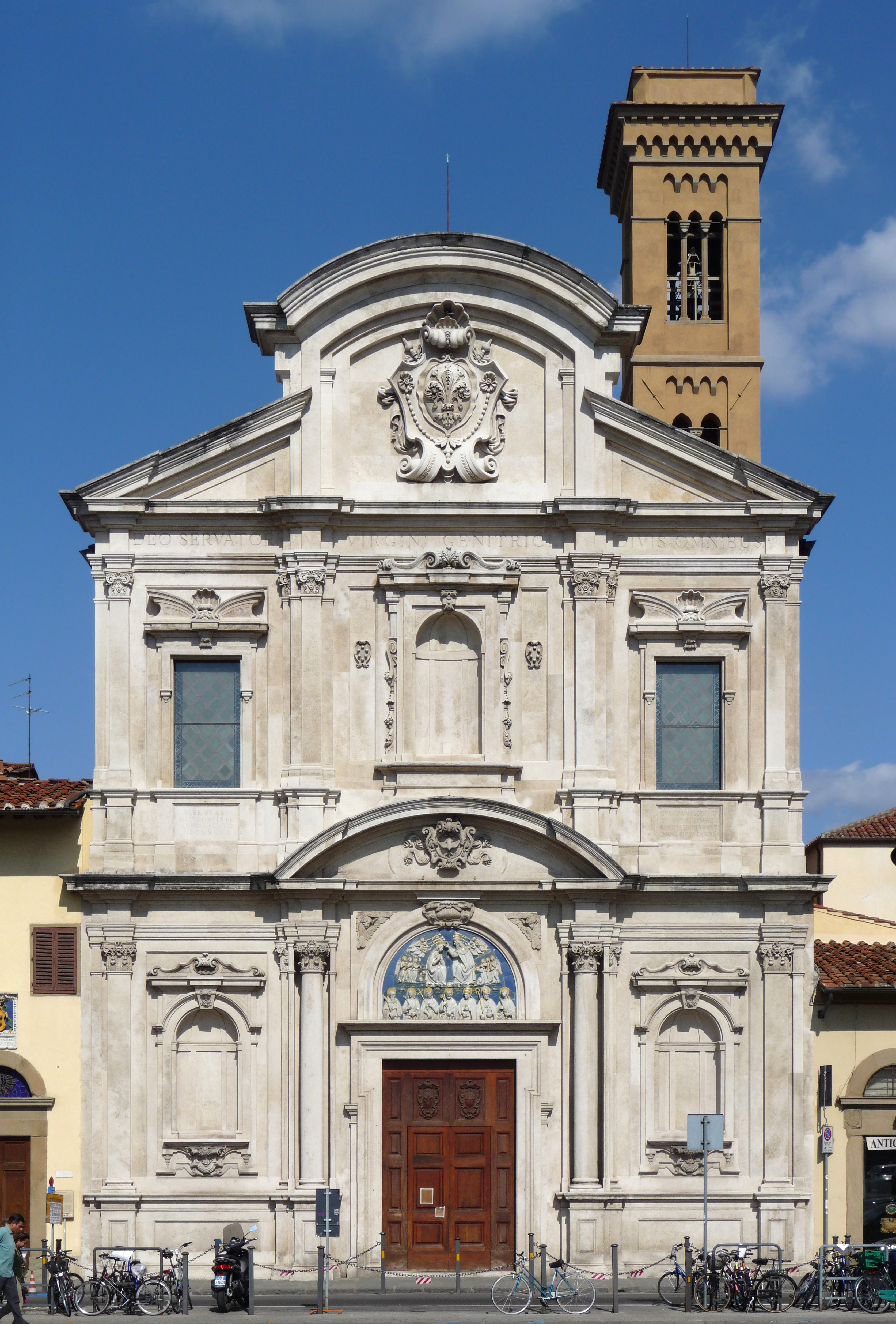 Chiesa di Ognissanti, Florence, Italy